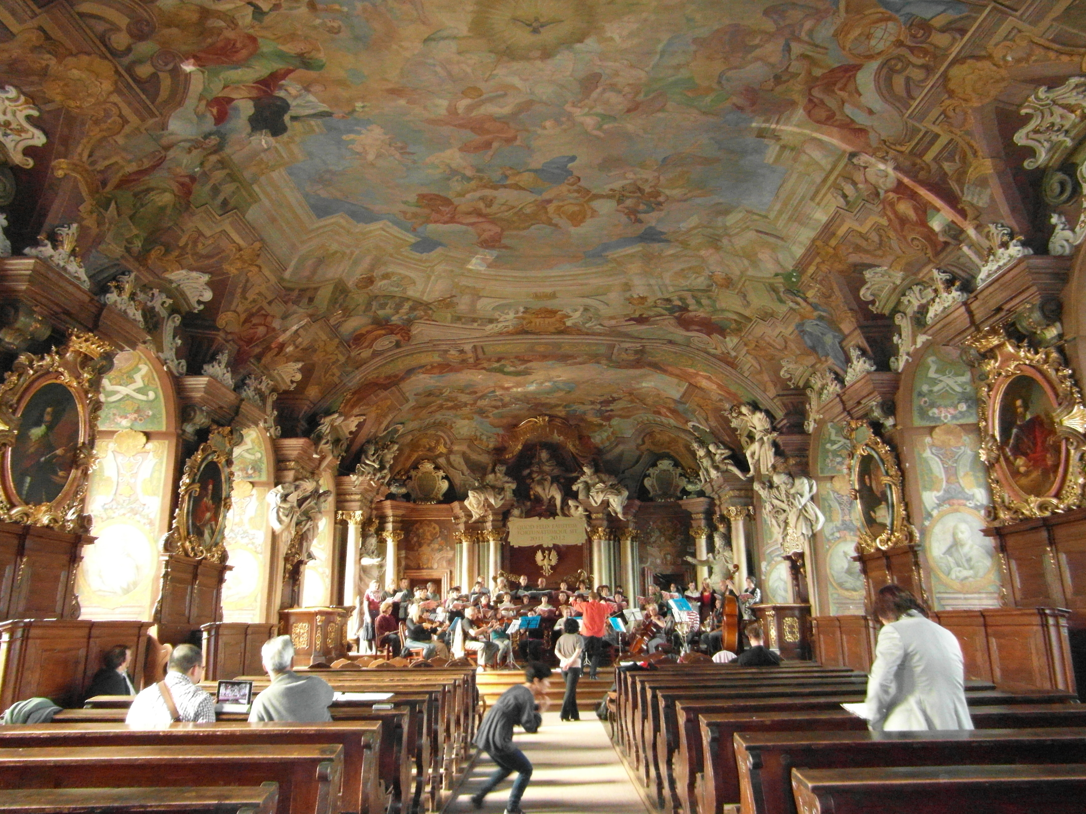 Aula Leopoldina